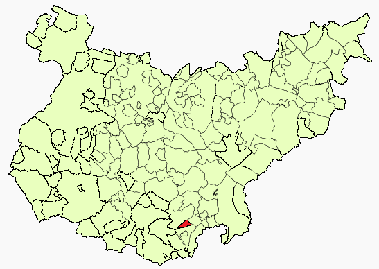 Trasierra